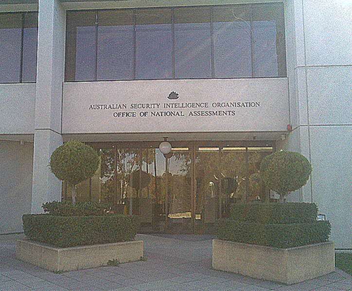 Front entrance of the building that houses the Australian Security Intelligence Organisation (ASIO) and the Office of National Assessments (ONA). This image has been digitally altered to remove identifying features from windows and background at the request of ASIO's Media Liaison Section when permission was given for the image's creation and distribution.